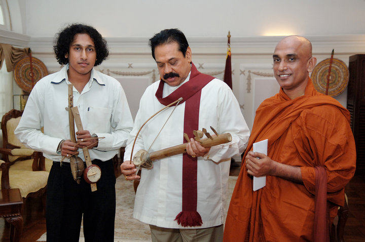 Sri Lankan President Mahinda Rajapaksa inspects a Ravanahatha